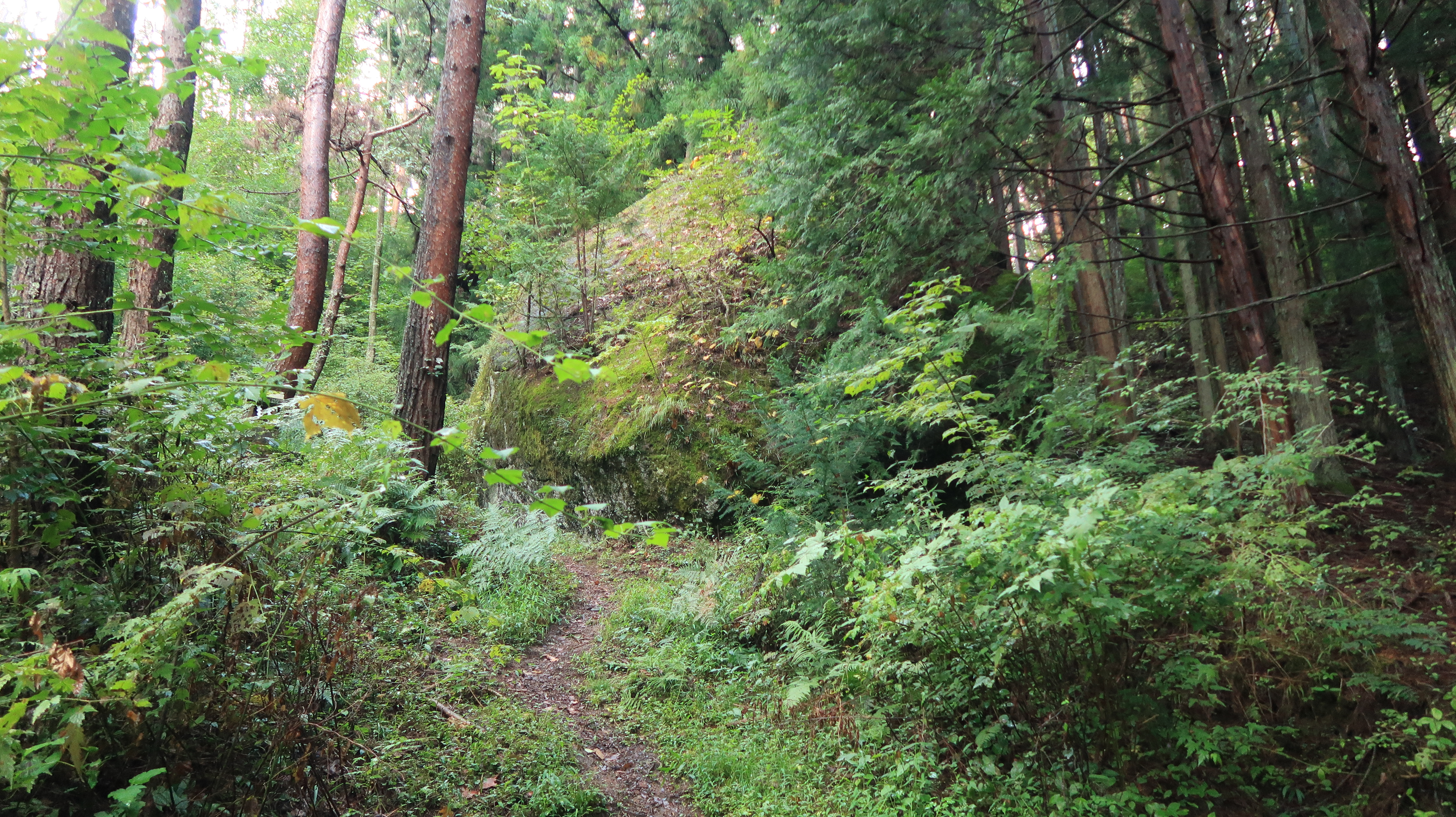 Ofukuro-ishi, a.k.a. Kobukuro-ishi (Takabe, Chino City, Nagano)